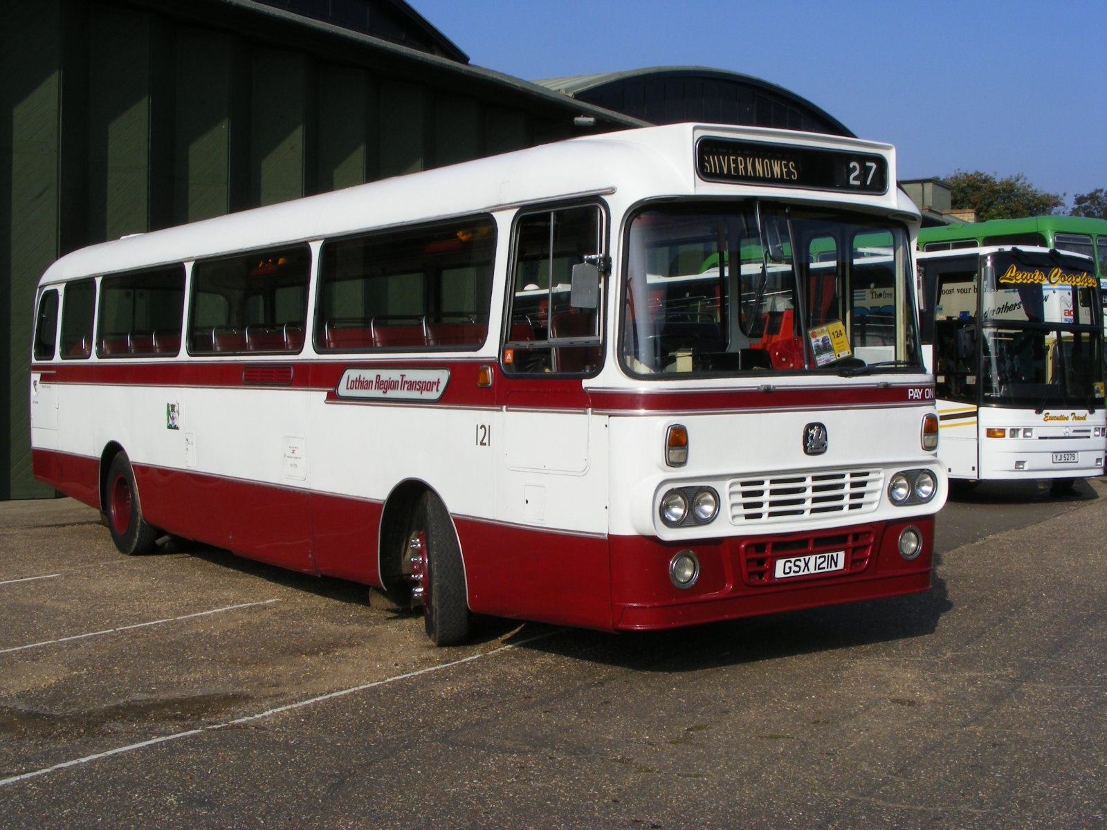 Edinburgh Corporation Transport bus 121 (reg. GSX 121N), a 1975 Bedford Vehicles YRT single-decker with Walter Alexander Y-Type bodywork. Delivered to the corporation as a 49 seat coach, it was converted after a year to a 53 seat bus. It was sold after only 7 years service, and entered preservation in 2002 (source). Pictured at the Showbus 2008 rally, wearing the livery of Lothian Region Transport, which replaced the corporation in 1975.